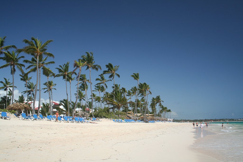 Punta Cana beach, Dominicana